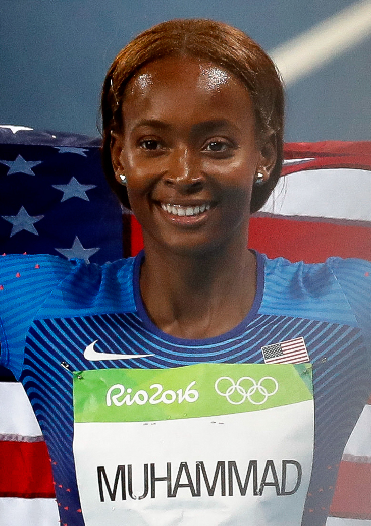 Rio de Janeiro - Dalilah Muhammad, dos Estados Unidos, vence os 400m com barreiras nos Jogos Rio 2016, no Estádio Olímpico. (Fernando Frazão/Agência Brasil)